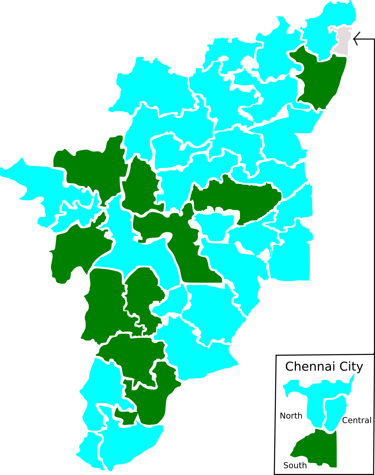 1991 Lok Sabha Election map for Tamil Nadu. Map is based on ECI drawn map. Results are based on ECI website.